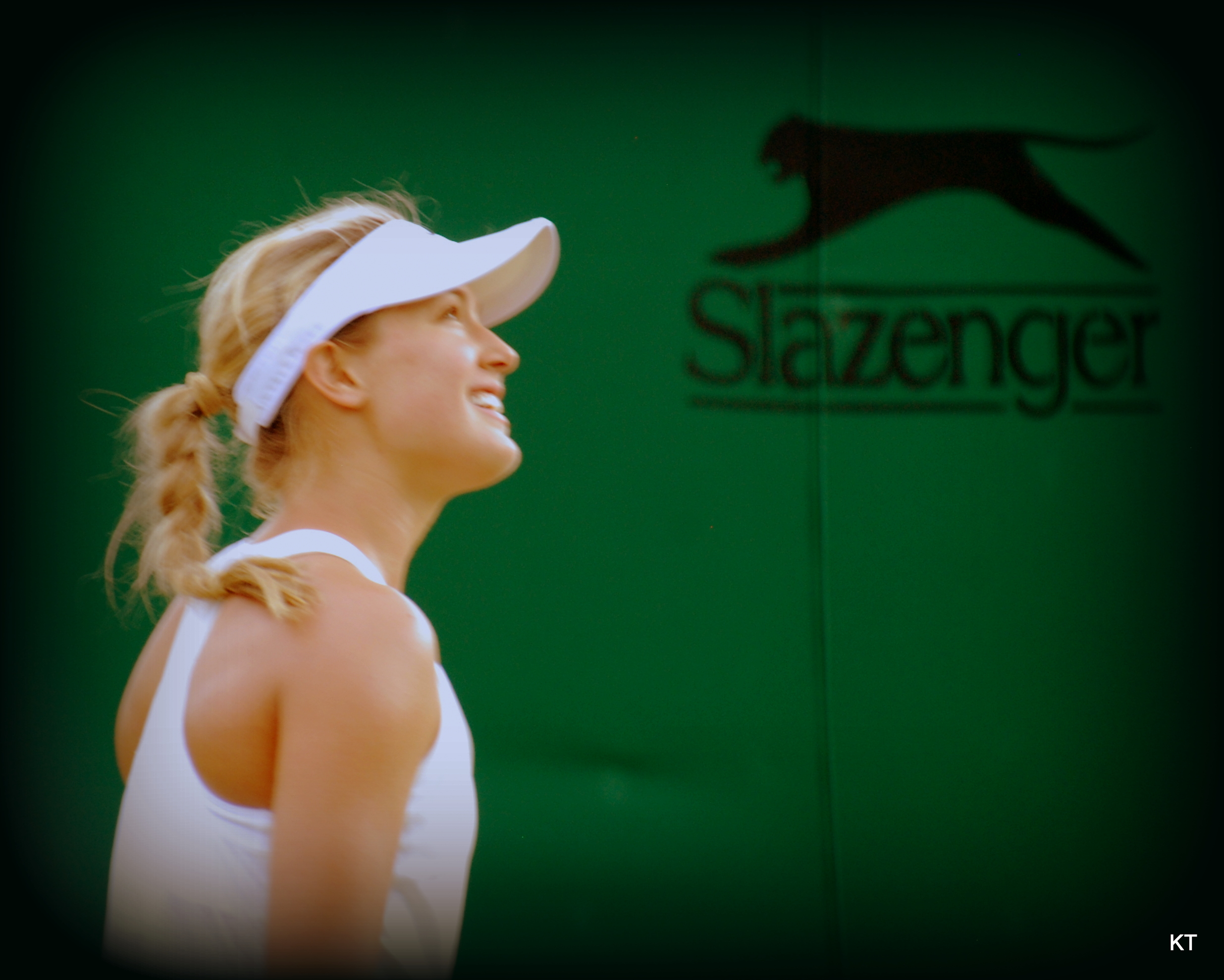 Day 3 of Wimbledon 2014.